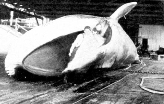 A captured Fin Whale, which was 72 feet long and weighed 65 tons. From "The Whaling Industry at Grays Harbor". In: "Puget Sound and Western Washington Cities-Towns Scenery", by Robert A. Reid, Robert A. Reid Publisher, Seattle, 1912. P. 157. Downloaded from